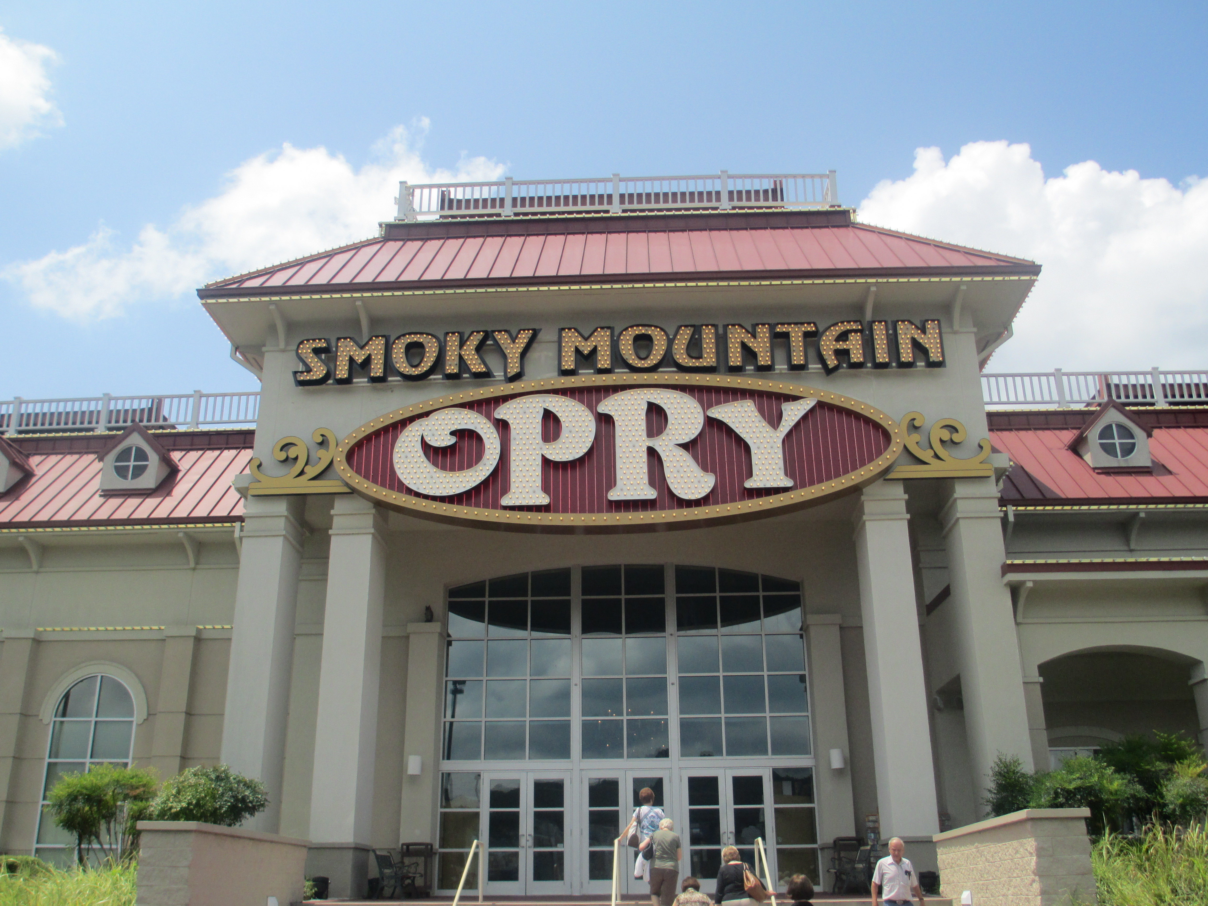 I took photo of Smoky Mountain Opry building in Pigeon Forge, TN, with Canon camera.